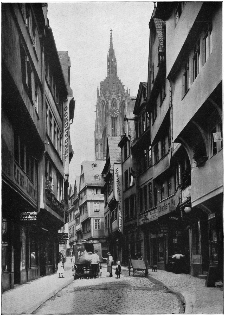 Frankfurt on the Main: Alter Markt (Old Market) as seen from the west